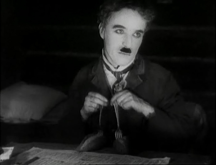 Scene from the movie The Gold Rush. 1925.